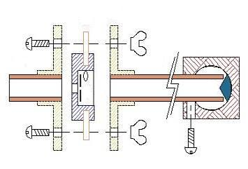 Scheme of Ranque-Hilsch vortex tube.